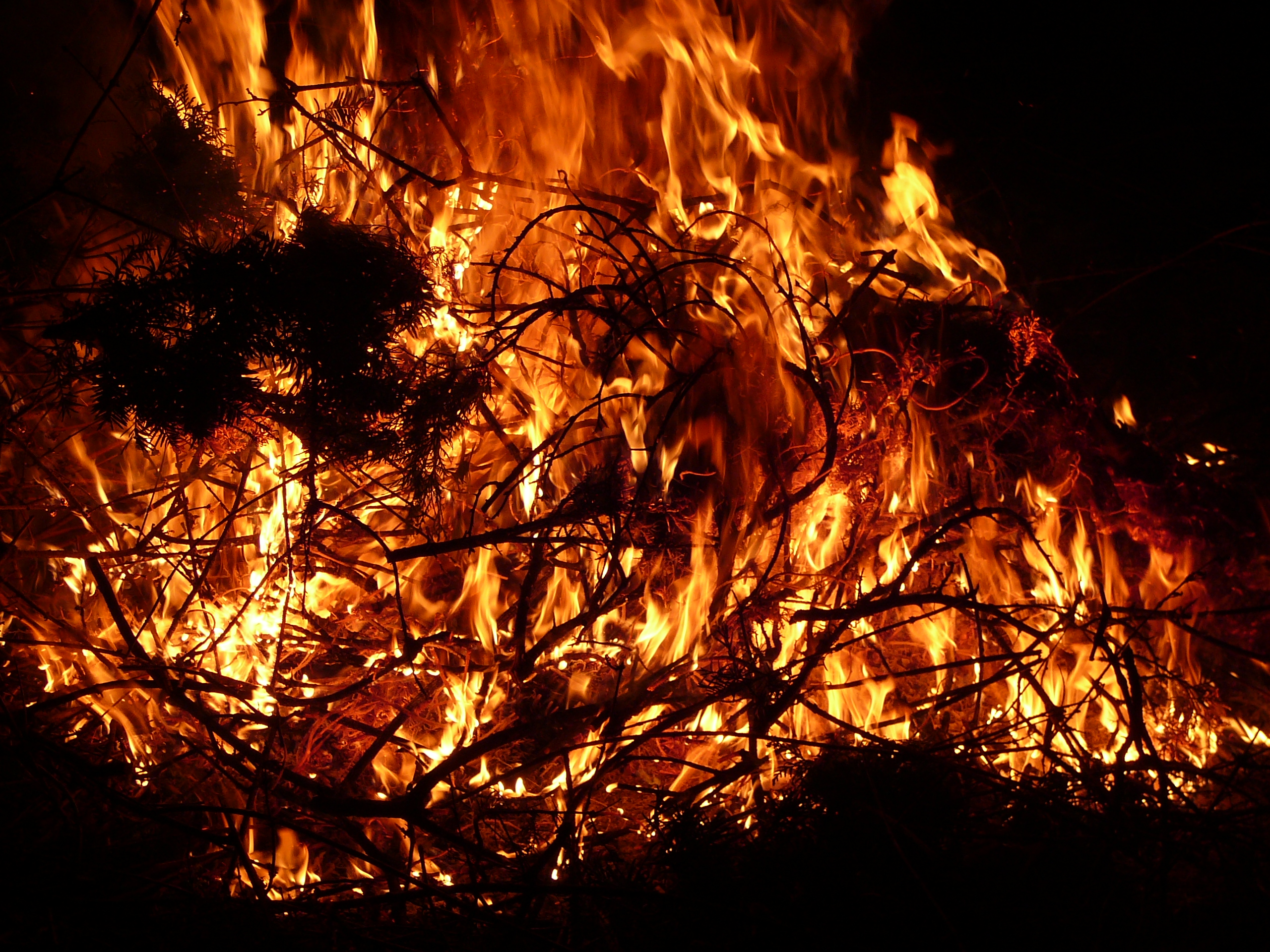 Fire from loppings